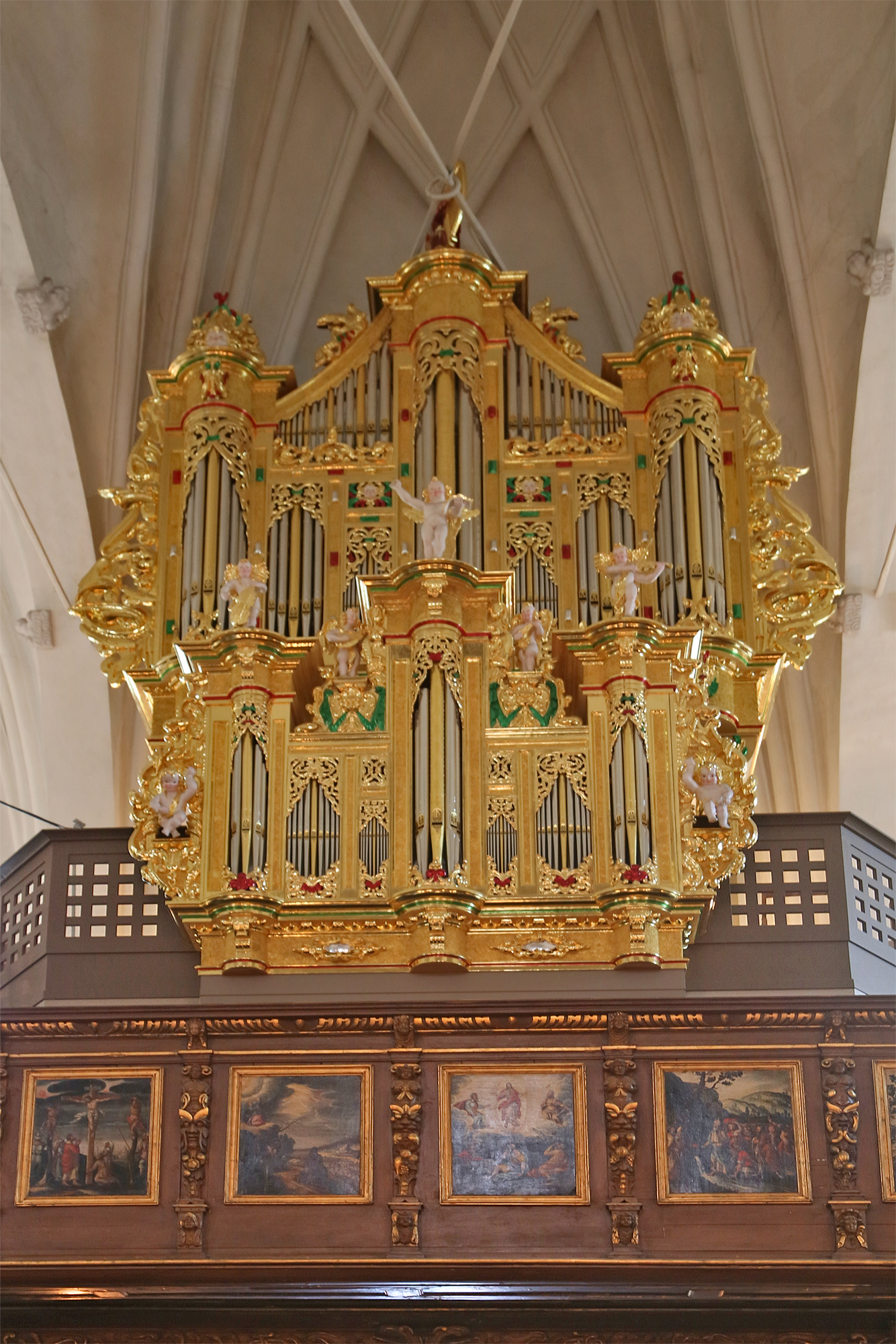 The Tyska kyrkan (German Church) is a Lutheran church building in Stockholm's Old Town (Gamla Stan). A special feature is the daily bell clock (8 h, 12 h, 16 h, 20 h).